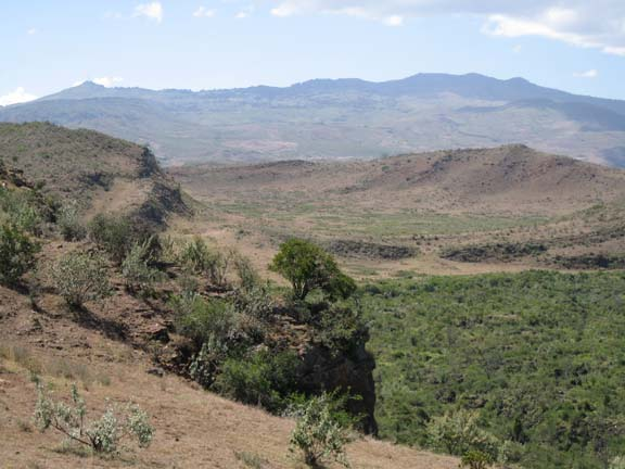 view from Eburru to Elementeita Badlands